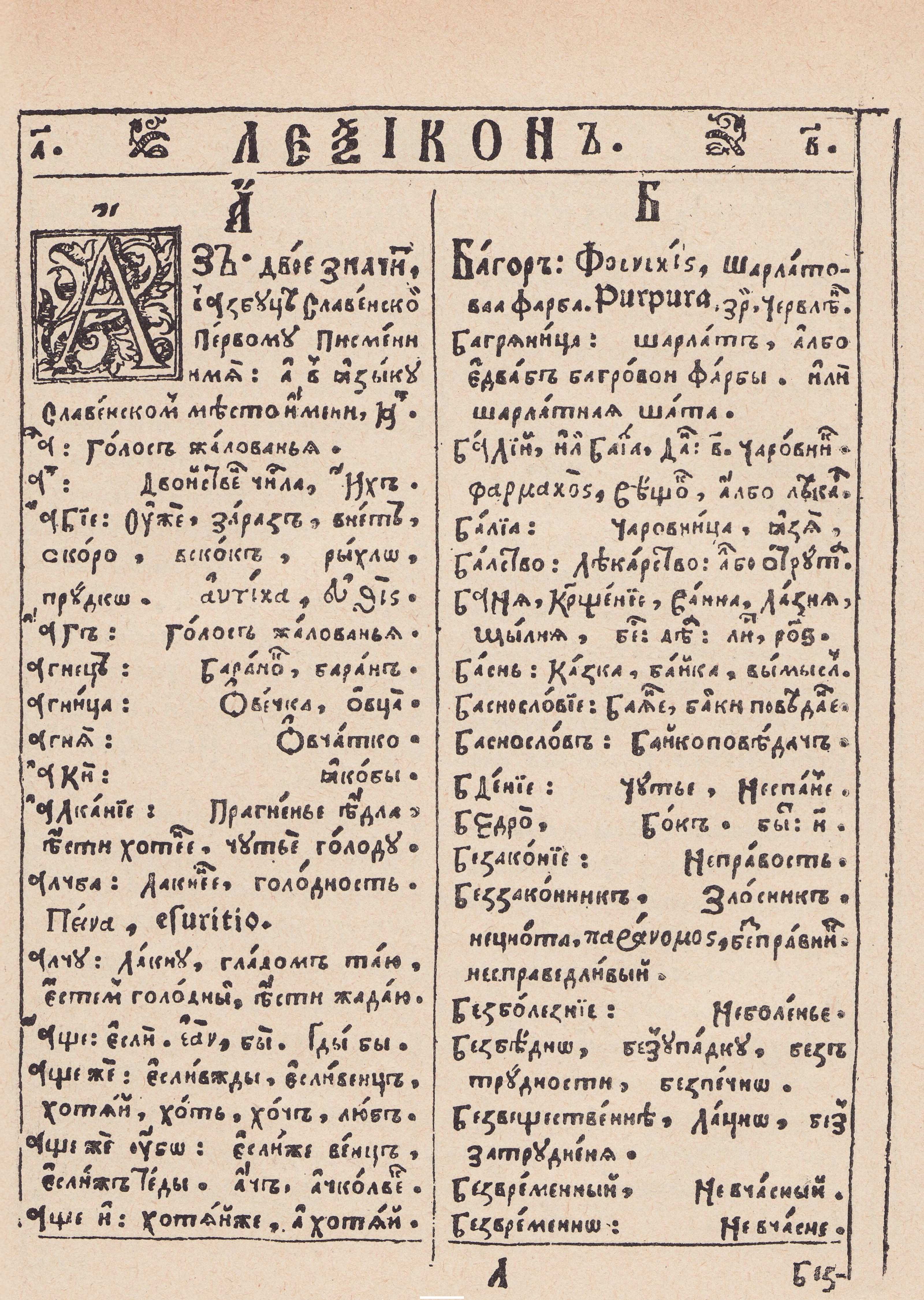 The first page of P. Berynda's Lexicon